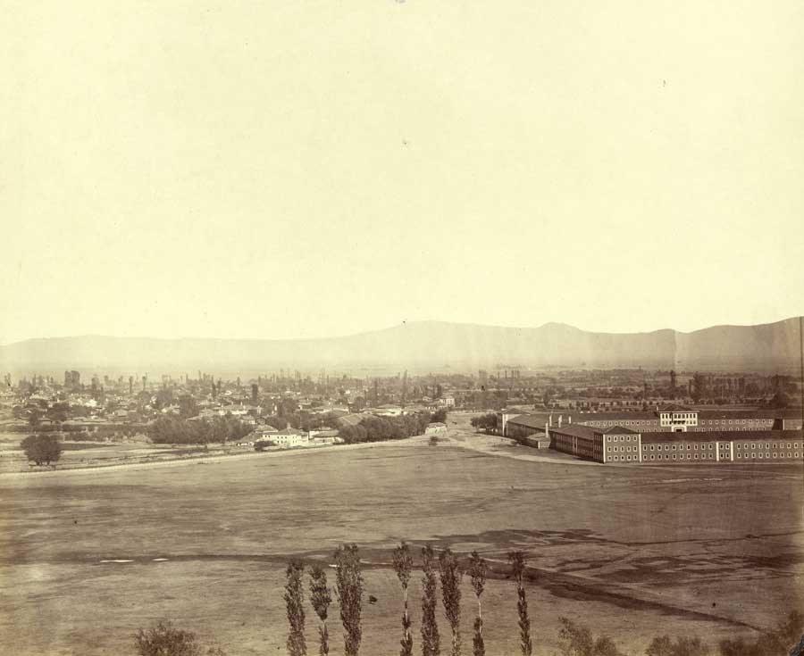 Josef Székely VUES IV 41086 Monastir [Bitola]: view from the south. October 1863